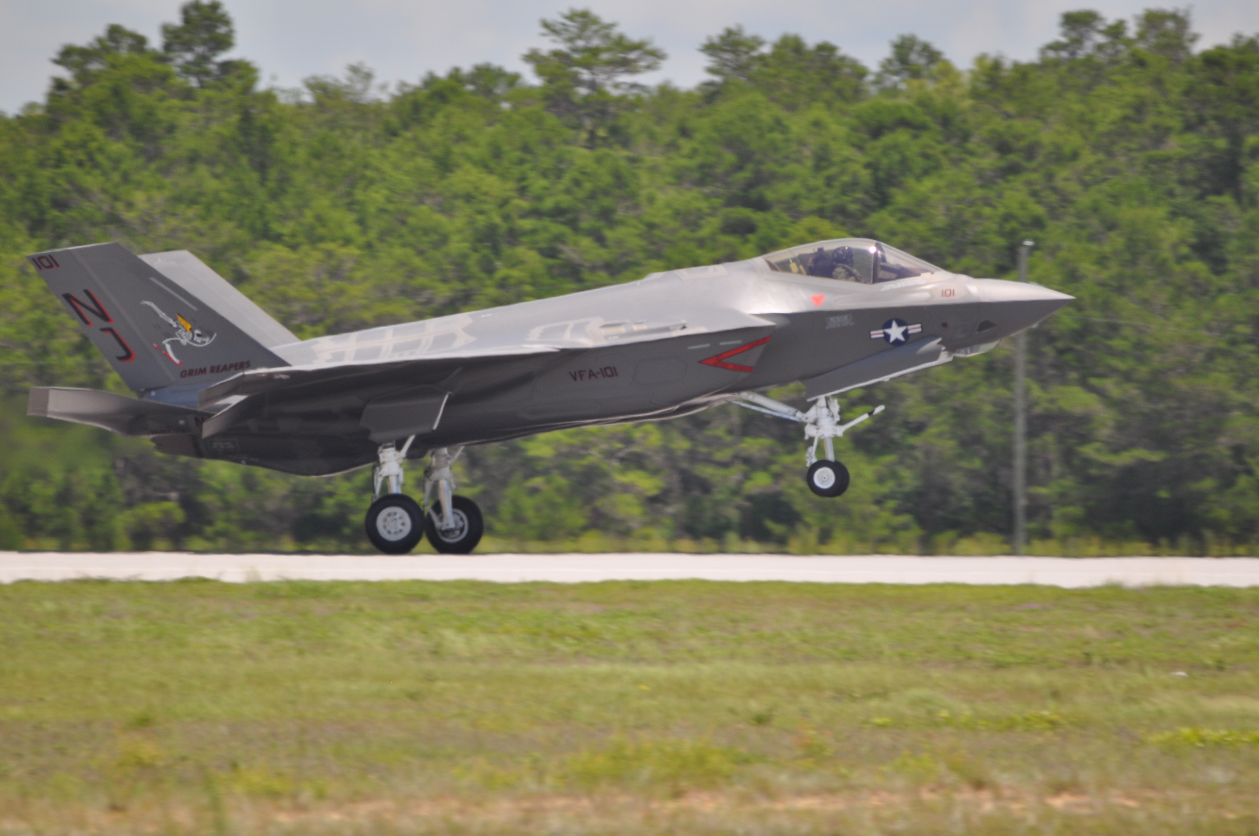 U.S. Navy Lt. Cmdr. Christopher Tabert, Lockheed Martin F-35C Lightning II instructor pilot of Strike Fighter Squadron VFA-101 "Grim Reapers" lands at Eglin Air Force Base's 33d Fighter Wing after a two hour flight from Ft. Worth, Texas (USA). VFA-101 received the Navy's first F-35C carrier variant aircraft from Lockheed Martin at the squadron's home at Eglin Air Force Base, Fla. VFA-101, based at Eglin Air Force Base, serves as the F-35C Fleet Replacement Squadron, training both aircrew and maintenance personnel to fly and repair the F-35C.